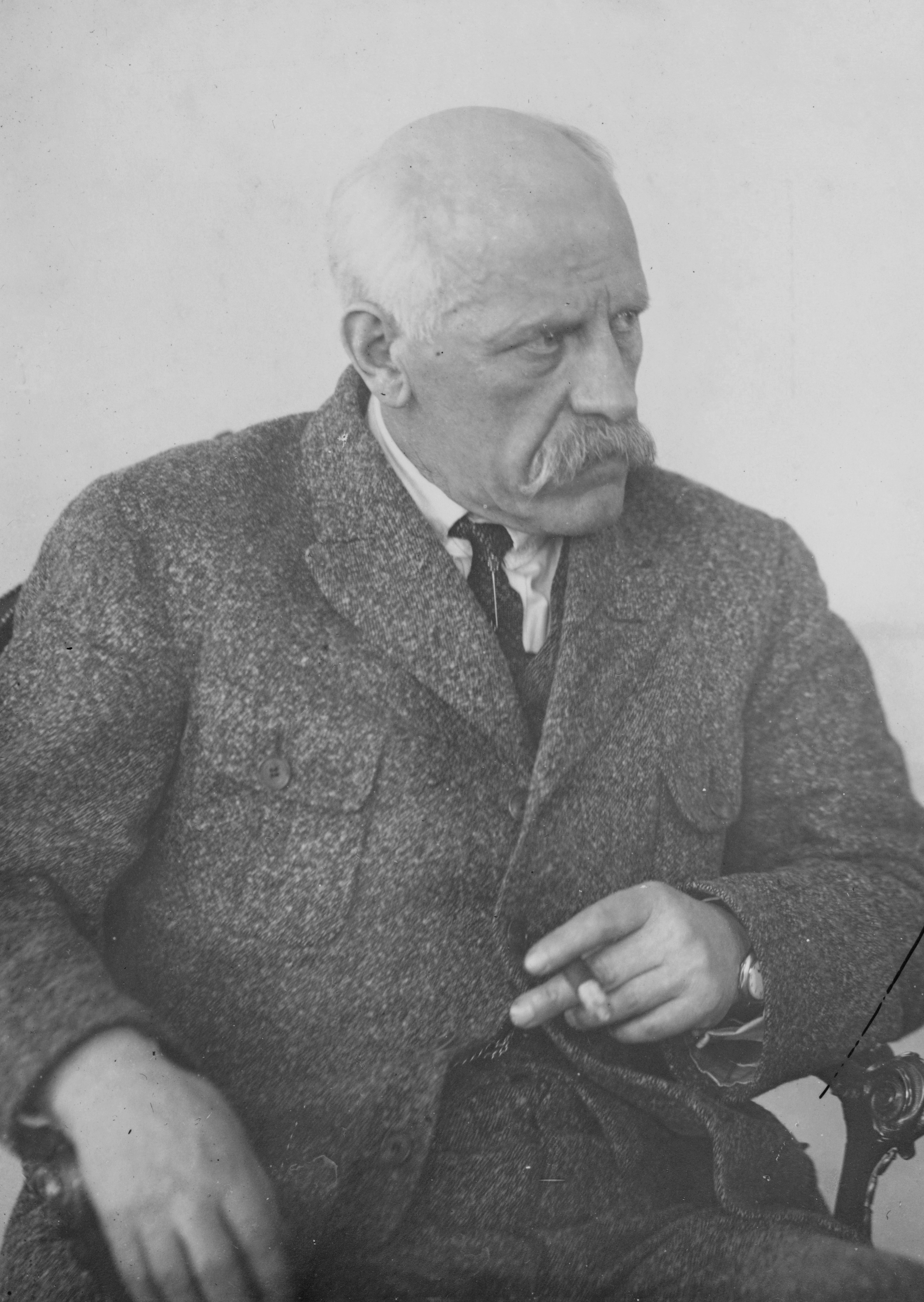 Fridtjof Nansen during his work in the Nansen Mission. Here he is staying in the Kharkov division. The catastrophic drought in the south part of the Volga district around Saratov, Samara, Orenburg and in Ukraina has lasted from May to September 1921.